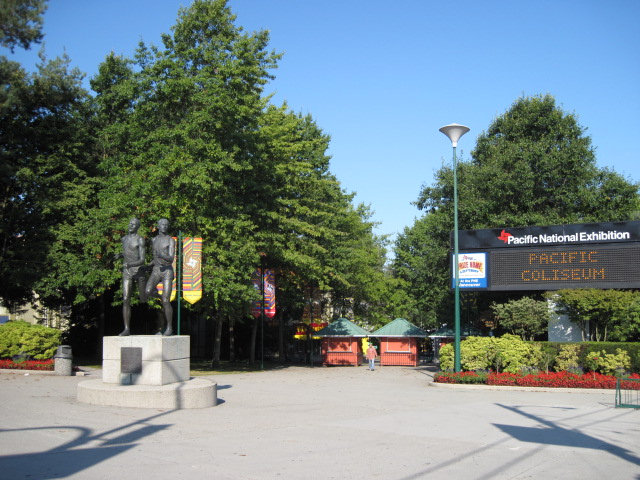 The entrance of Hastings Park, in Vancouver, B.C., Canada. The two men statues on this photo were made to imitate Roger Bannister and John Landy who run a race, which was called "Miracle Mile," in 1954 Commonwealth Games.